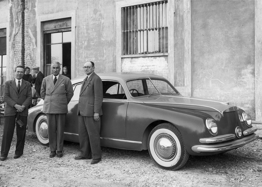 1947 Isotta Fraschini 8C Monterosa Zagato and Ugo Zagato (rightmost person). Two unknown persons. There were ca 4 made by different coachbuilders.[1]